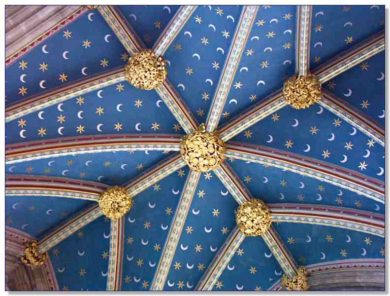 Exeter cathedral, Exeter, England